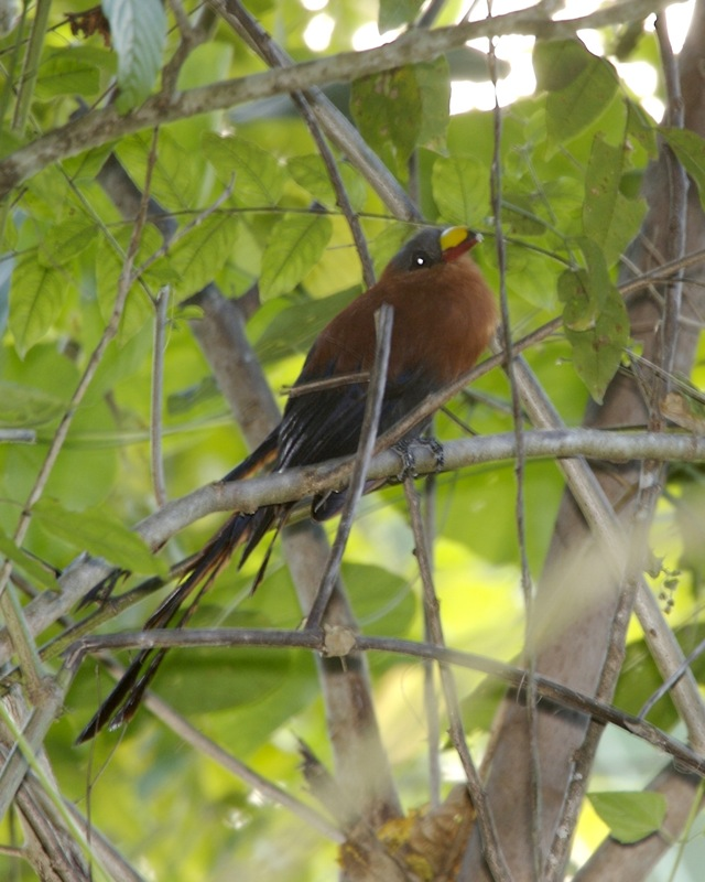 Yellow-billed Malkoha (Phaenicophaeus calyorhynchus) at Tangkoko, Sulawesi, Indonesia on 9 July 2006. Also called: Celebes Malcoha, Celebes Malkoha, Fiery-billed Malcoha, Fiery-billed Malkoha, Yellow billed Malkoha, Yellow-billed Malkoha. Distribution